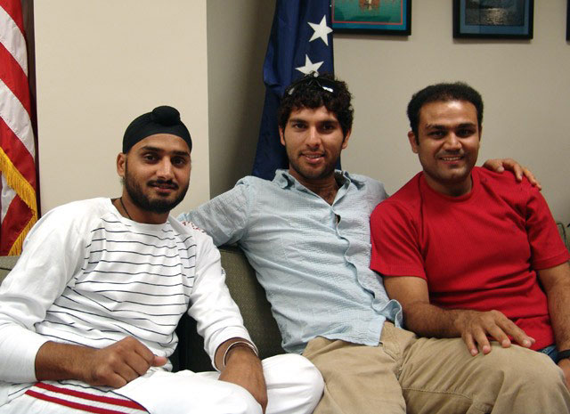 Taken from